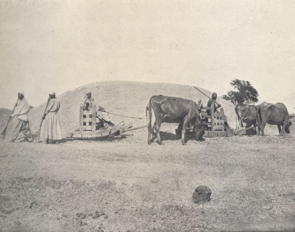 “A VILLAGE SCENE IN EGYPT.Threshing the corn as in the days of the Pharaohs.”Oxen pulling threshers and men in the field. Black- and- white photograph.